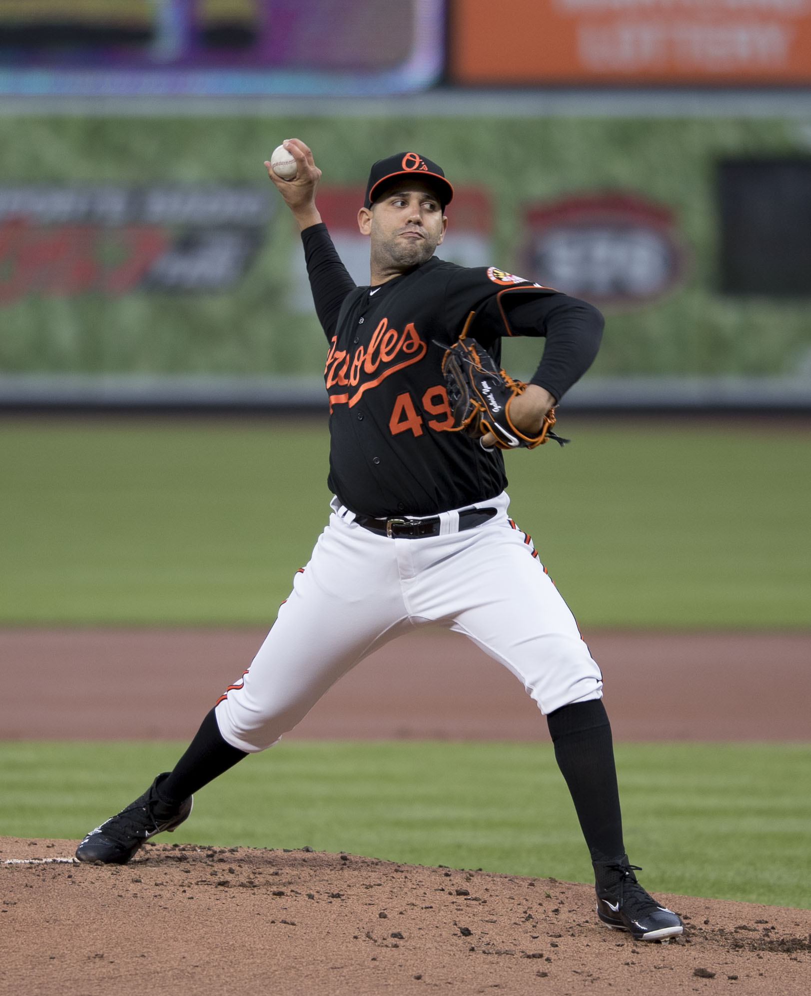 Gabriel Ynoa of the Baltimore Orioles pitches in a game against the Chicago White Sox at Oriole Park at Camden Yards on May 5, 2017 in Baltimore, Maryland.